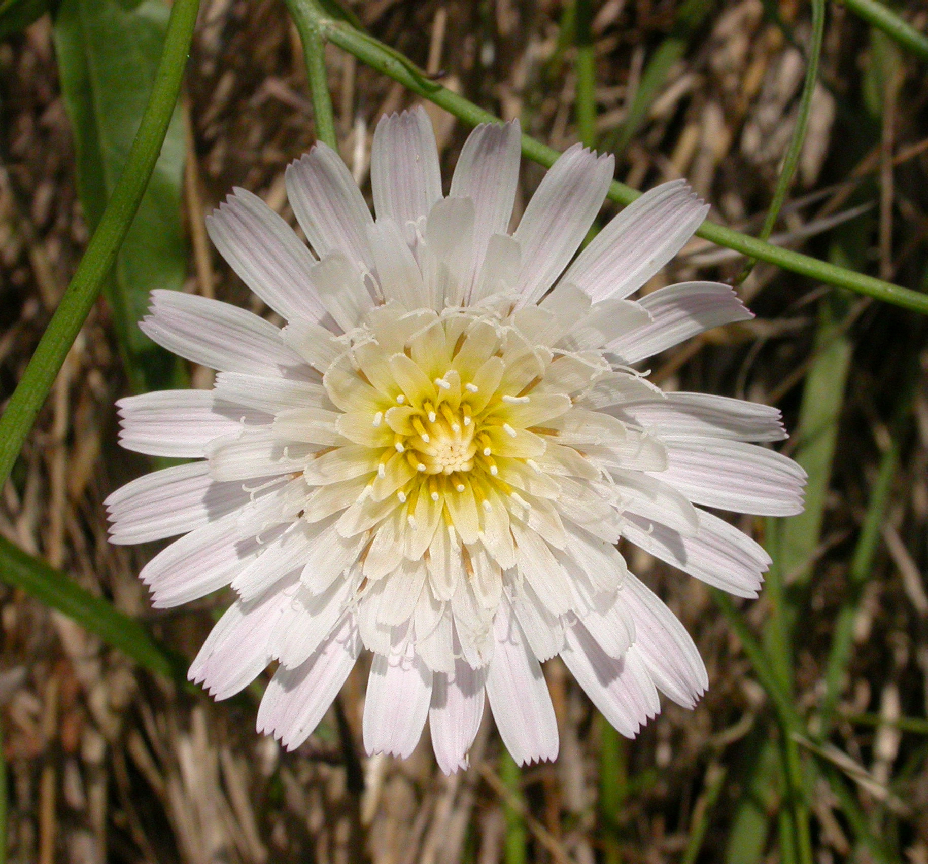 Photographed in Voorhis Ecological Reserve near Pomona, CA, USA.